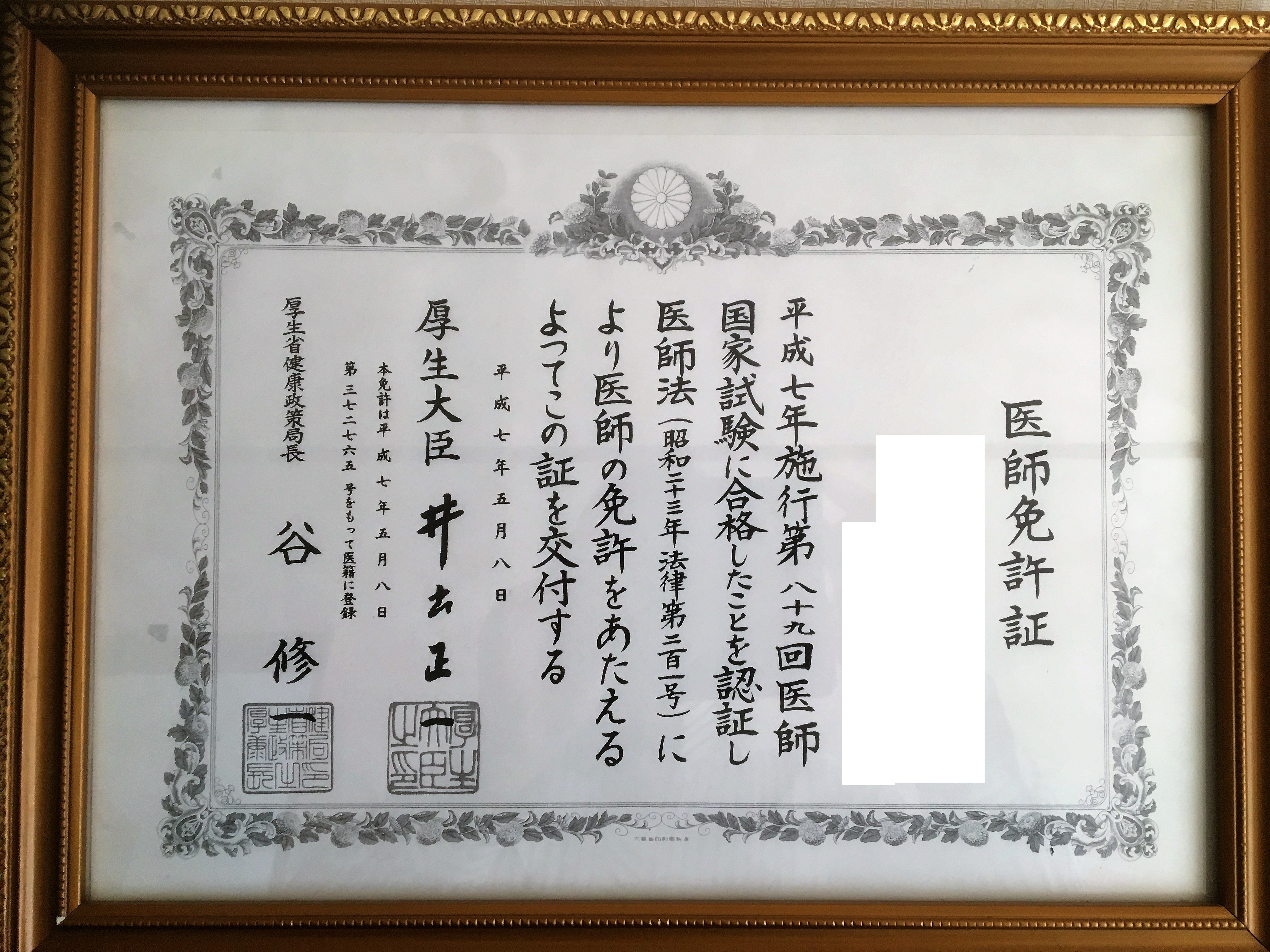 japanese doctor's license, medical qualification.